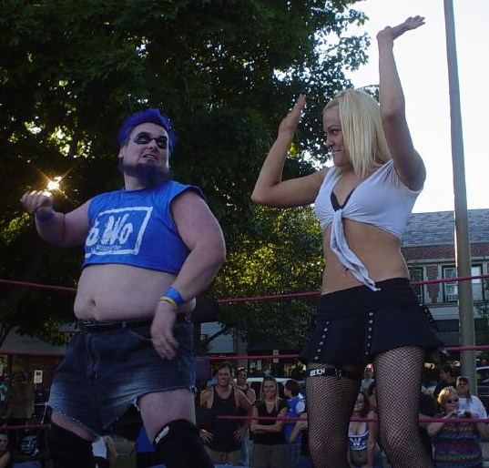 Professional wrestler The Blue Meanie (real name Brian Heffron; left) and Velvet Sky (real name Jamie Szantyr; right) in the ring at a CCW show on September 3, 2005 in Branford, Connecticut.